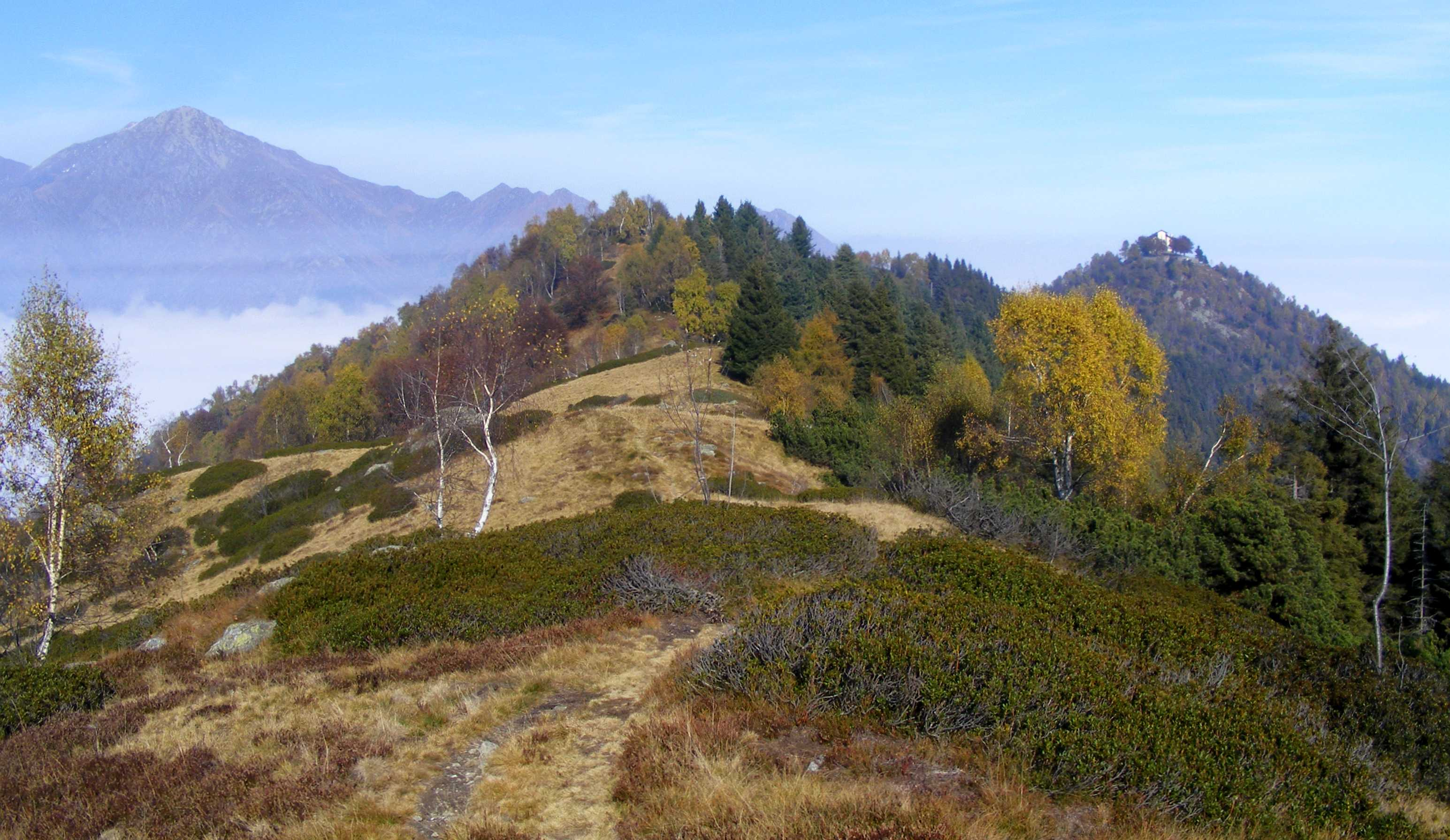 Monte Rubello (1414 m s.l.m.) from Monte Prapian (BI, Italy); in its left Monte Barone, on the right San Bernardo